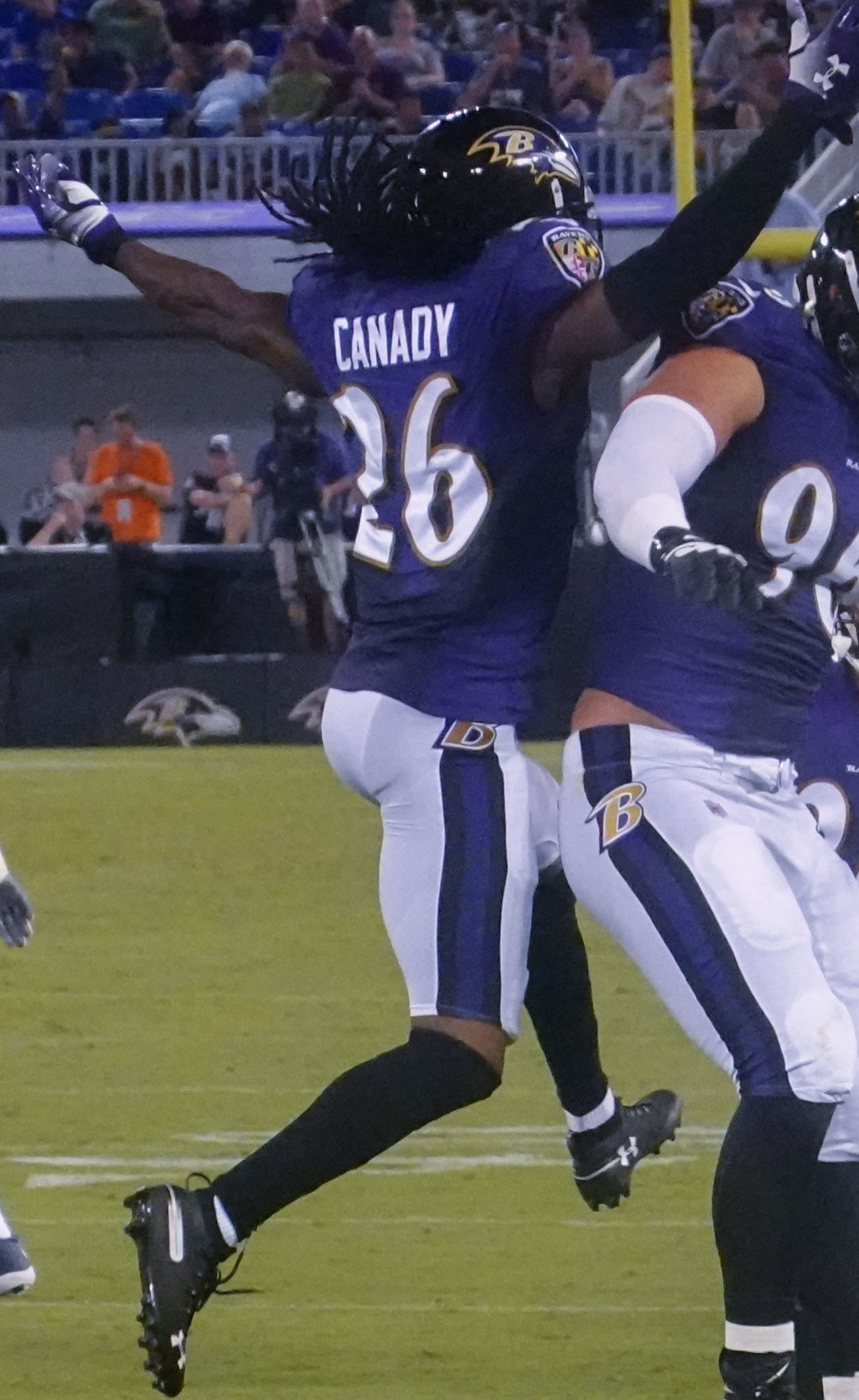 2018 Los Angeles Rams season